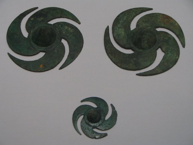 Shield ornaments from Gaya, a polity in Korea during the Three Kingdoms period.